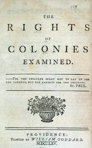 Cover page from Stephen Hopkins' pamphlet "The Rights of Colonies Examined" dated 1765.